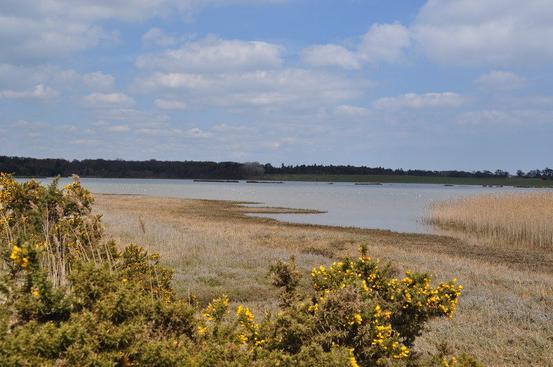 Blythburgh Reserve, near to Blythburgh, Suffolk, Great Britain. A national nature reserve at Blythburgh. Taking advantage of the large waters which provide habitats for waders and many other types of birds. There are many walks about the site and a hide too.